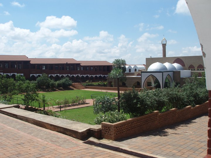 More buildings of Daraloom Zakariya including entrance to Alim Halls and Hifz Hall